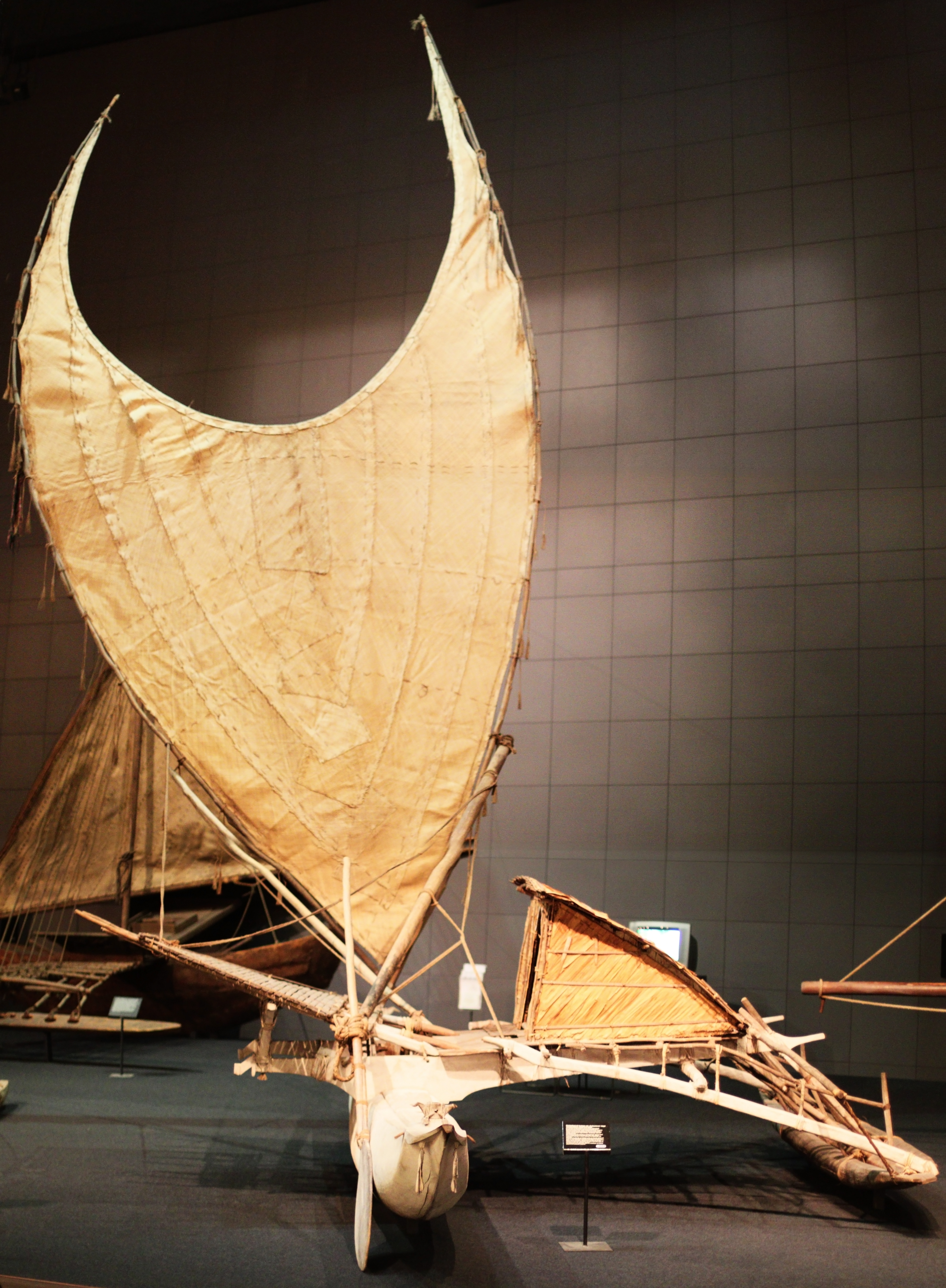 Bluewater outrigger boat with a crab-claw sail; Taumako / Nifiloli; Santa Cruz-Inseln. The crab-claw sail is as efficient as a square sail of the same overall dimensions (as tested in windtunnels). Presumably the scooped-out outline of the sail prevents flow separation by channeling the wind across the sail, avoiding concentrations of pressure. The dangling "ornaments" the sail provide turbulence control (near edge of picture). When reaching, the boat can reverse direction without turning. Only the sail must be turned from "forward" to "astern". This boat (te puke or folafolau) was built on Taumako and sailed out of Nifiloli; it was used for travel and trading within the Santa Cruz archipelago. Her owner named her "Maunga Nefe“ after a mountain on the island Vanikoro, the home of the dead. Teh boat is the last of its kind. It was brought to Berlin in 1967. The hull is prepared for bluewater travel inteh traditional manner, with clay slip made from ocean-bottom sediments.